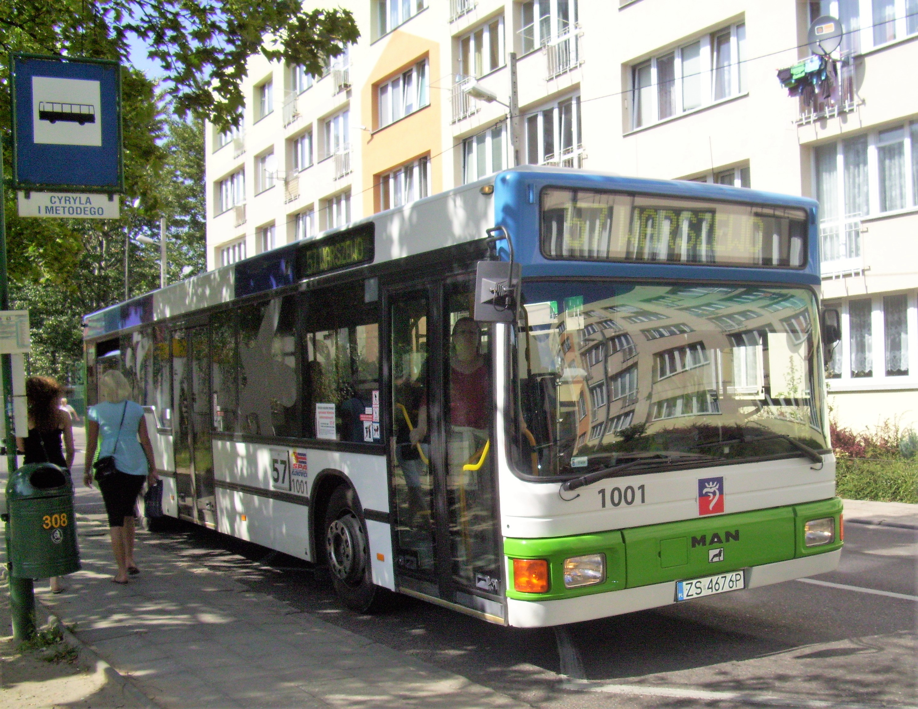 MAN NL262 bus (#1001, reg. ZS 4676P) in the colors of Floating Garden in Szczecin on Niebuszewo, Poland. Built 2000, SPA Klonowica operator.